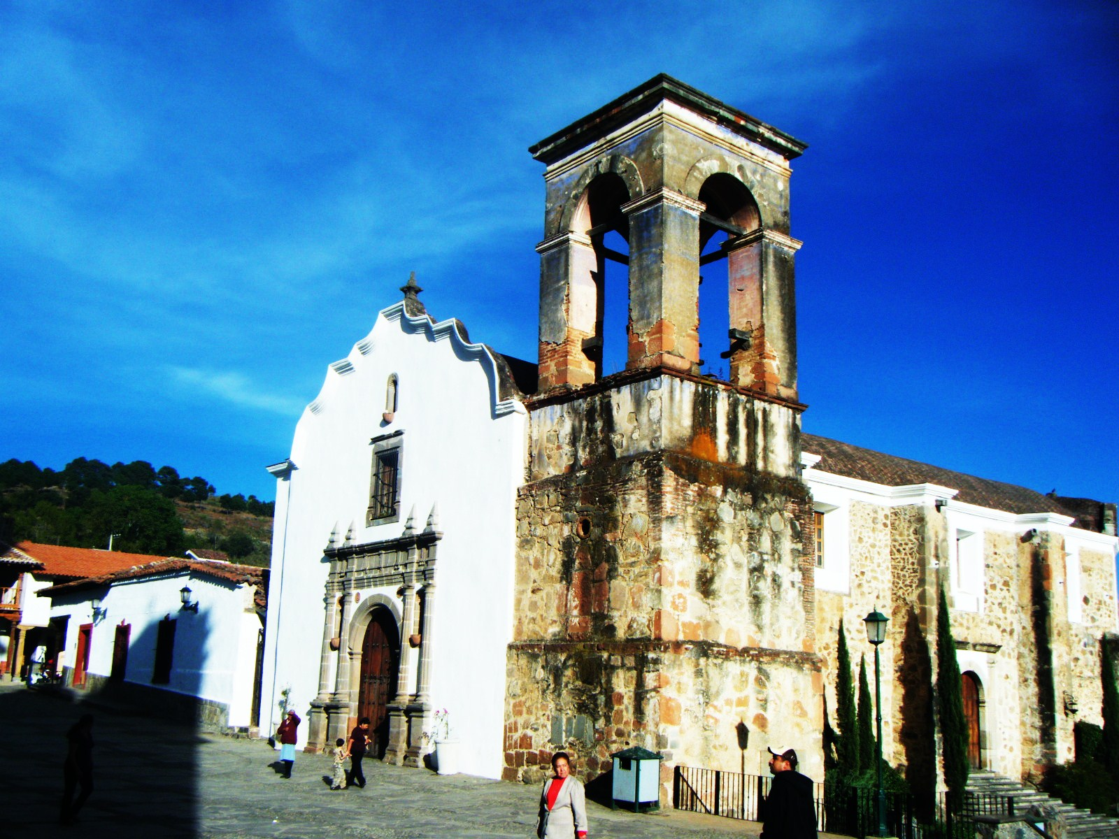 Spanish colonial era Church of Inmaculada Concepción — in Tapalpa, Jalisco state.